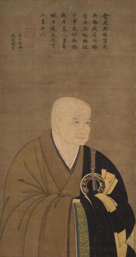 Mukyoku Shigen, Jissa-in